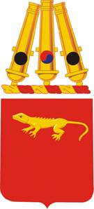 Available from the US Army Institute of Heraldry at